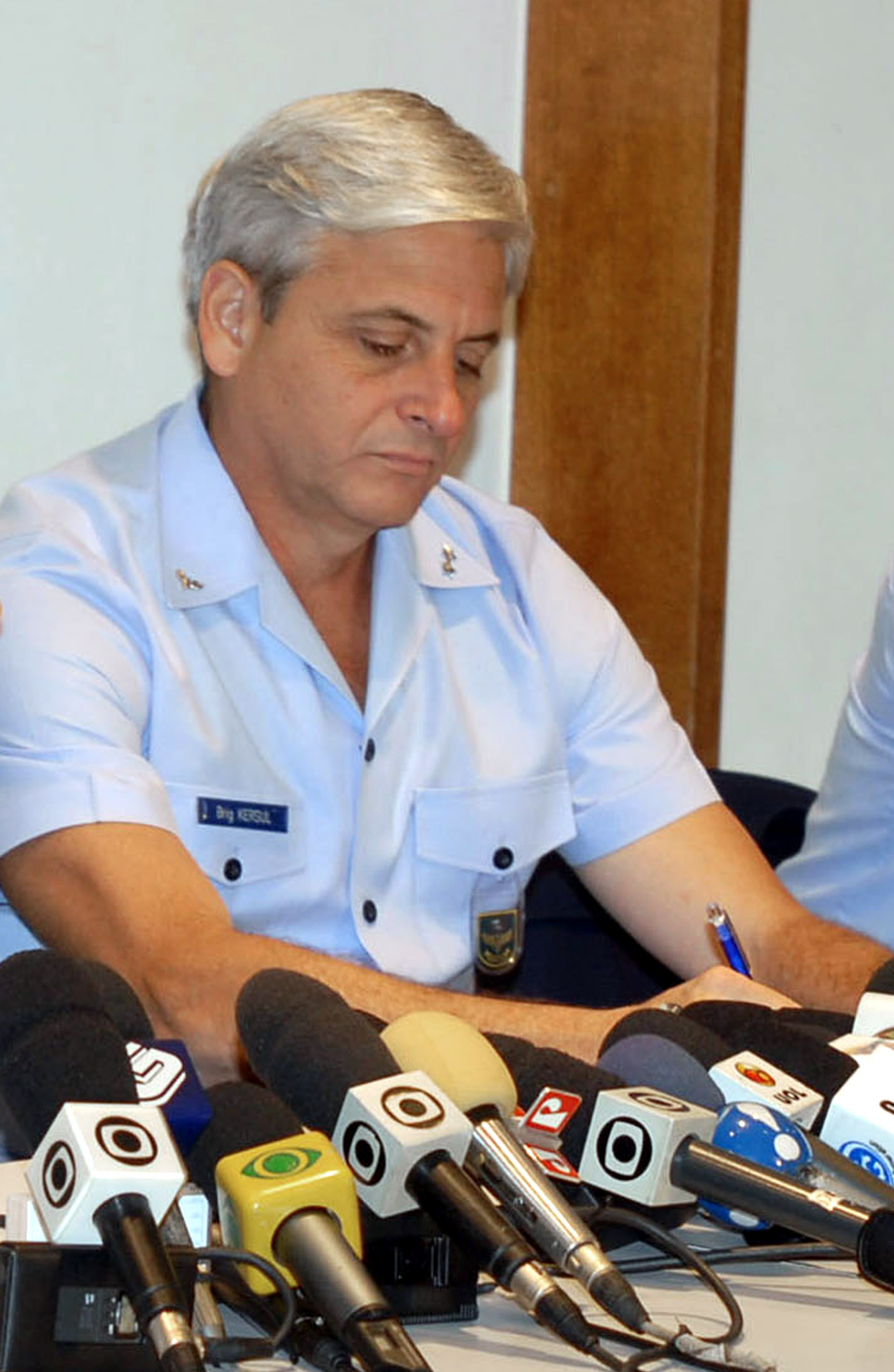 São Paulo - The head of CENIPA (Centro de Investigação e Prevenção de Acidentes), Brigadier Jorge Kersul Filho, in a press conference. He said a shutdown of the reverser does not prevent a landing: "The reverser is a tool of a pilot"